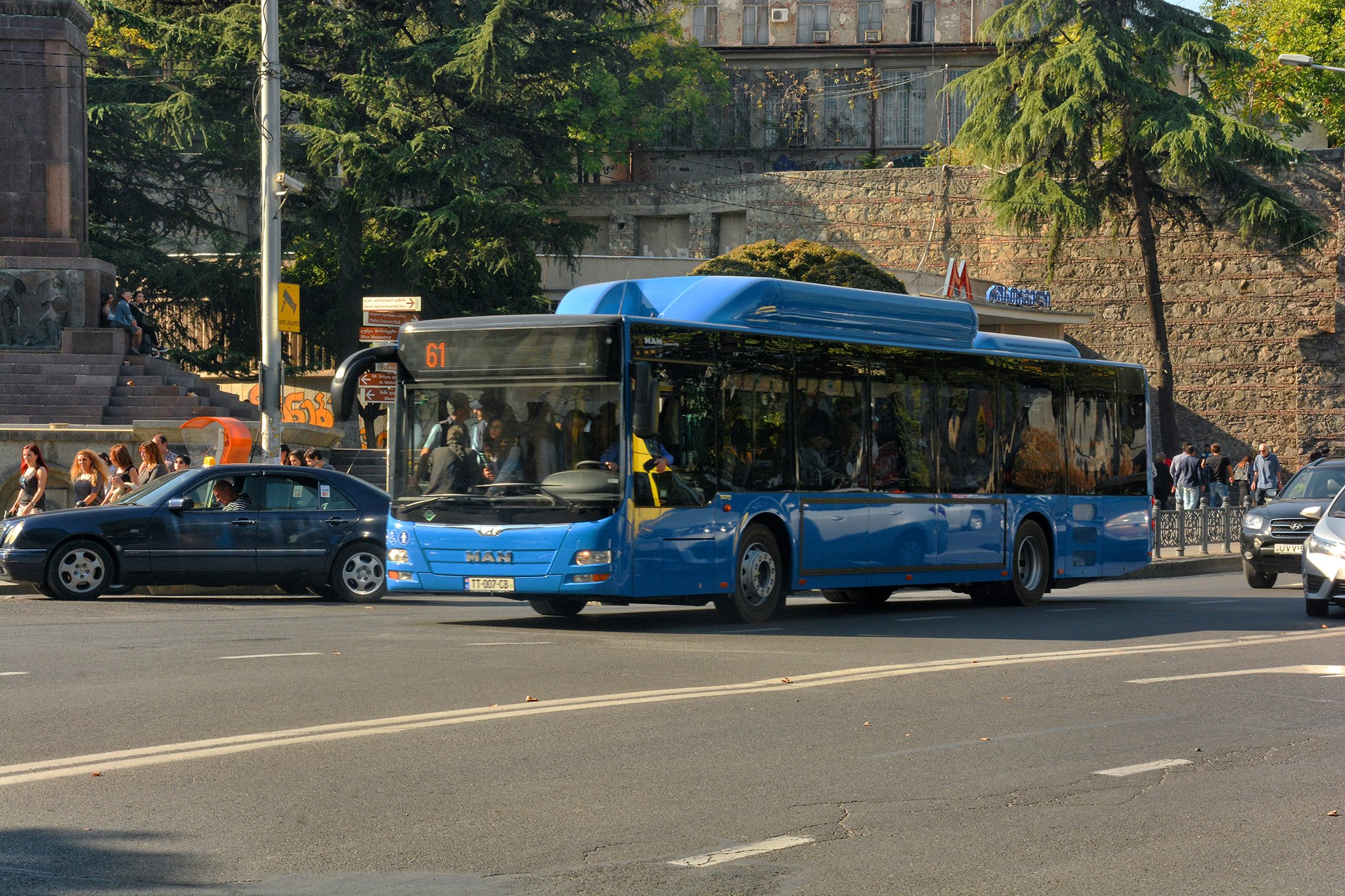 Tbilisi's New Bus